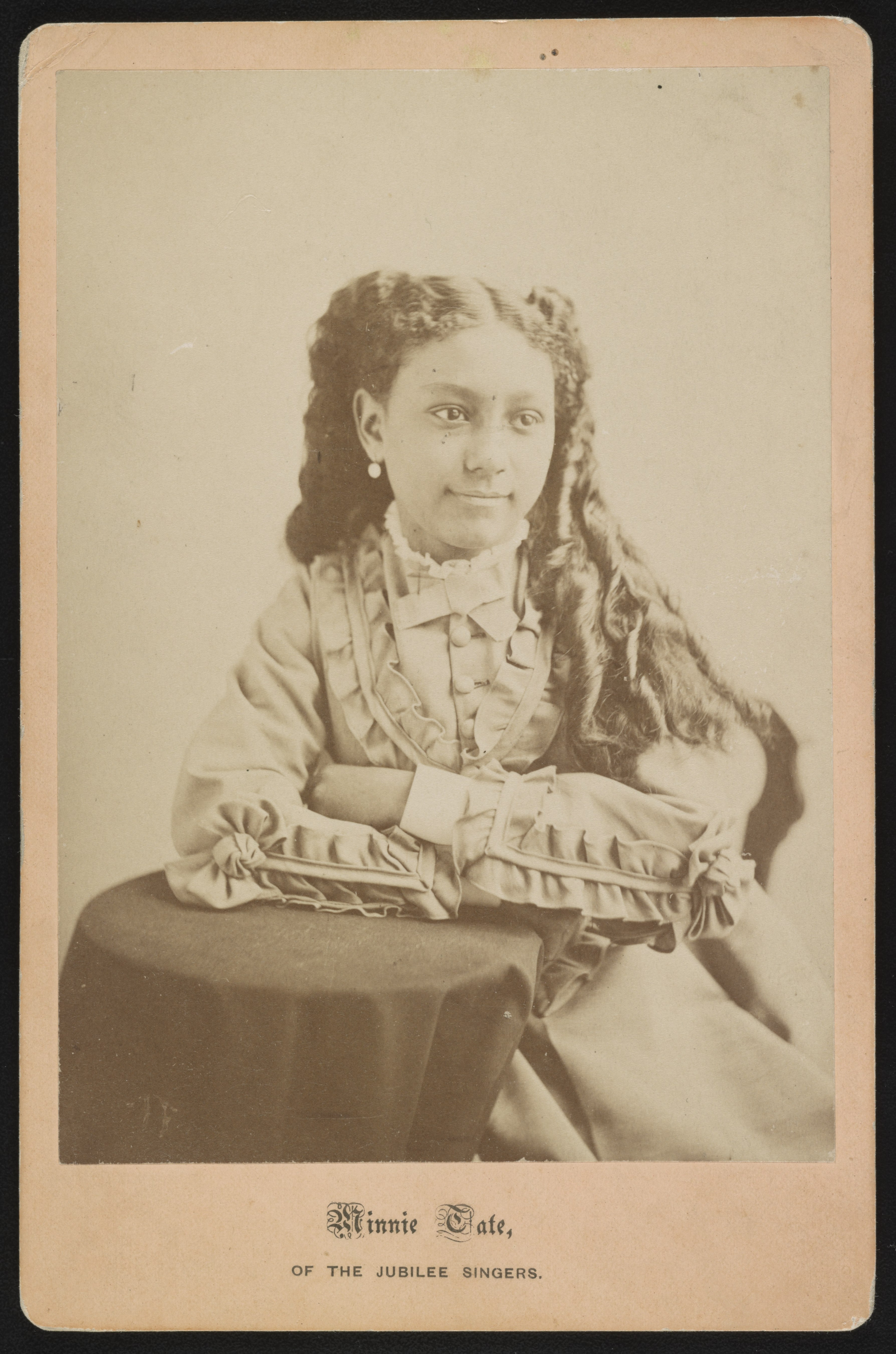 Title: Minnie Tate, of the Jubilee singers / negative by Black. Abstract/medium: 1 photograph : albumen print on card mount ; photo 13.9 x 9.9 cm, on mount 16.7 x 10.8 cm (cabinet format)